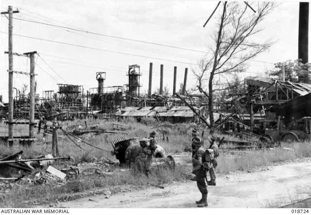 Lutong, Borneo. c. 22 June 1945. Australian troops look at the damaged oil refinery installations, near Miri.